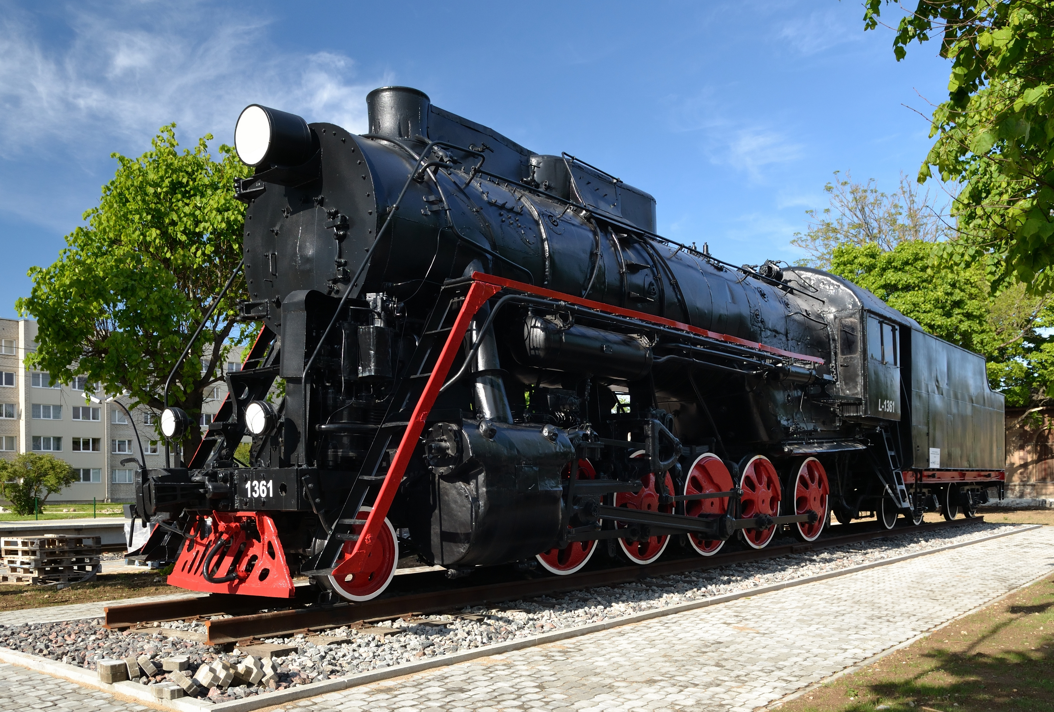 Steam locomotive in Tapa station. Built in Brjansk, 1950.